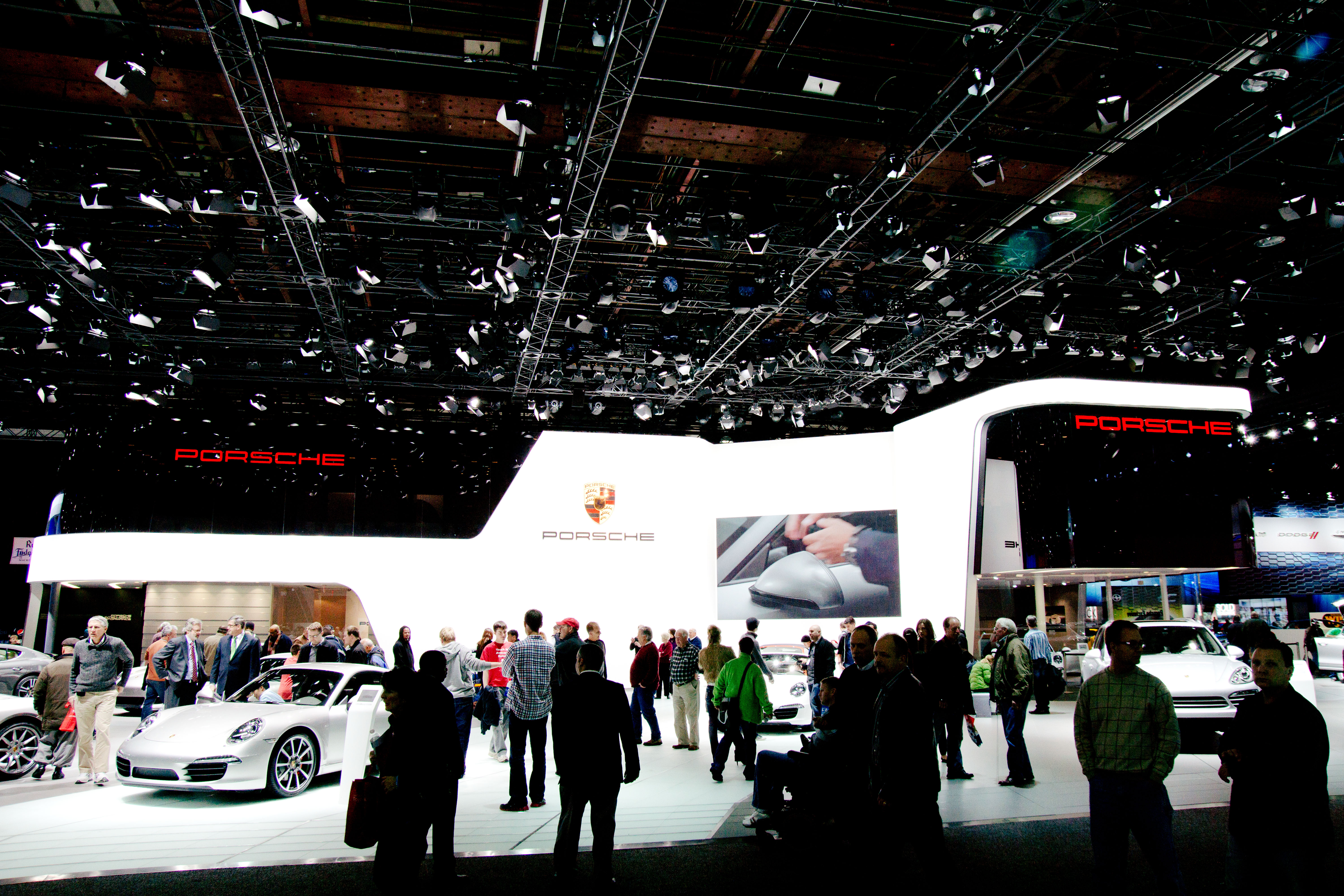 Detroit International Auto Show, again showing a fraction of the lighting in the ceiling.